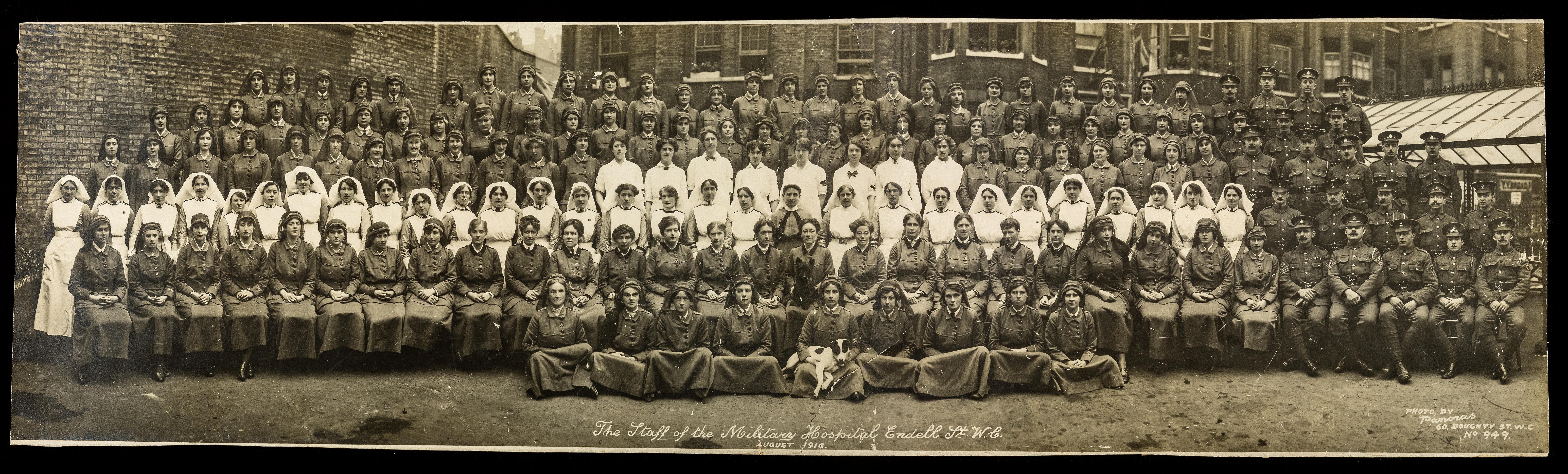 Drs Flora Murray and Louisa Garrett Anderson seated on chairs centre, Anderson with dog, eleven doctors each side of them (no veils, dark lapels); Matron Grace Hale centre behind; Quartermaster Olga Campbell in front row with dog; orderly Nina Last, sixth from left on the top row; nurse Barbara Last, third row down, second from left of the women dressed in white. The last woman on the right hand side without a veil is believed to be Eleanor Elizabeth Bourne, an Australian doctor.